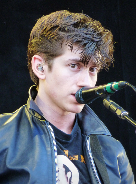 Alex Turner (musician)